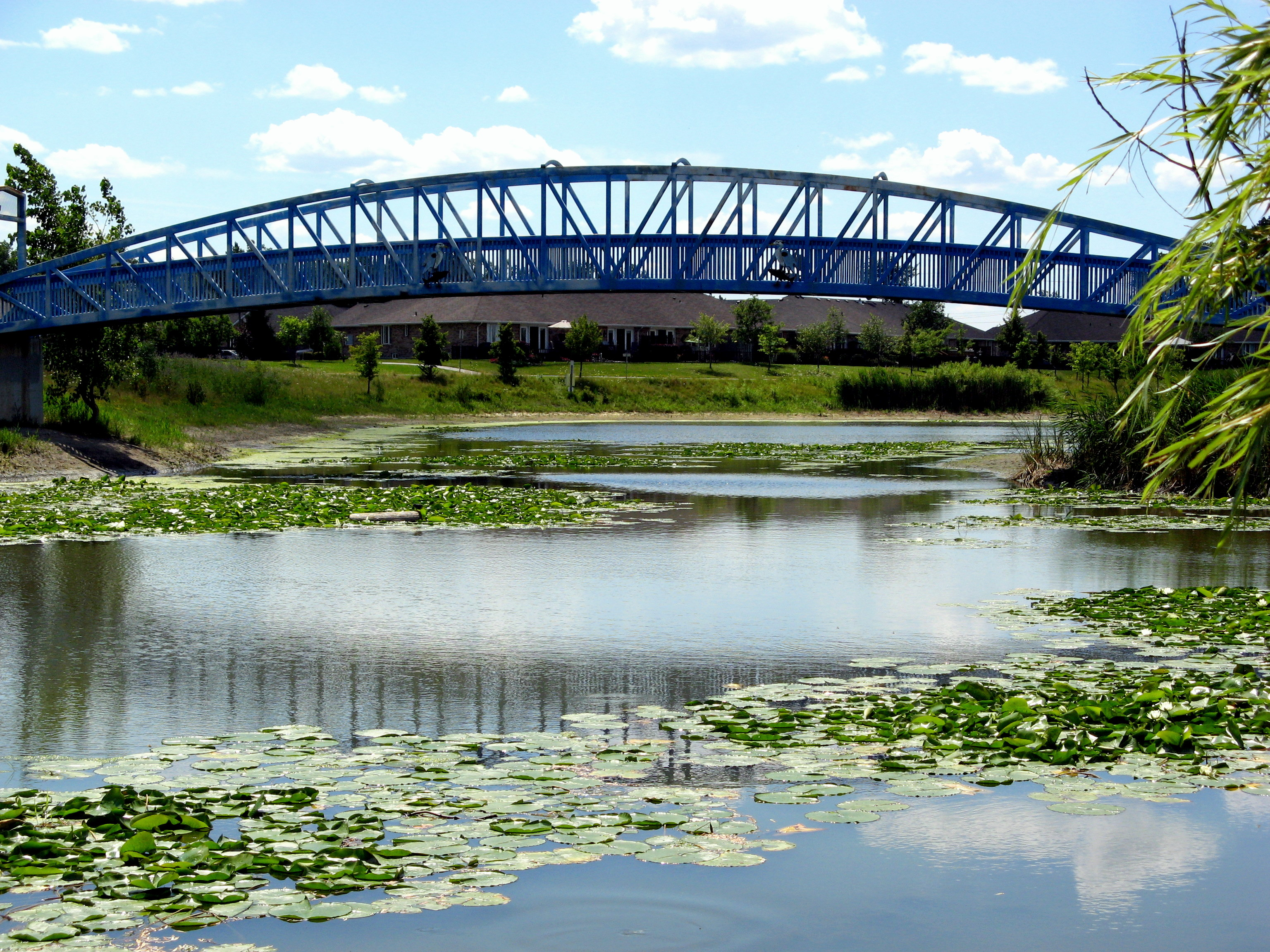 Bridge over Blue Heron Pond, July 2008